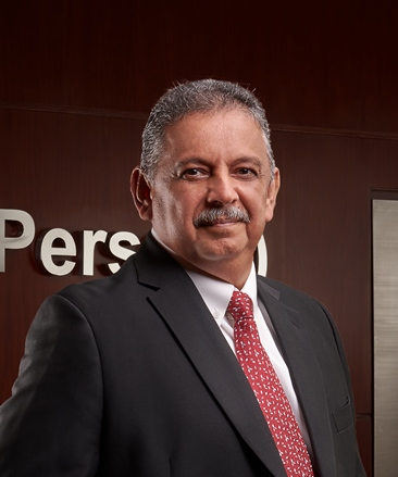 Sofyan Basir as CEO of Indonesia State Electricity Company